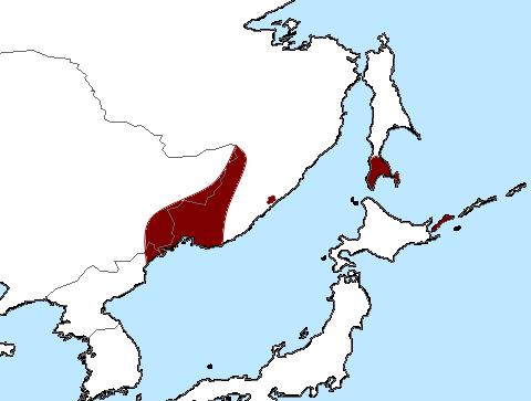 Murina ussuriensis Range Map